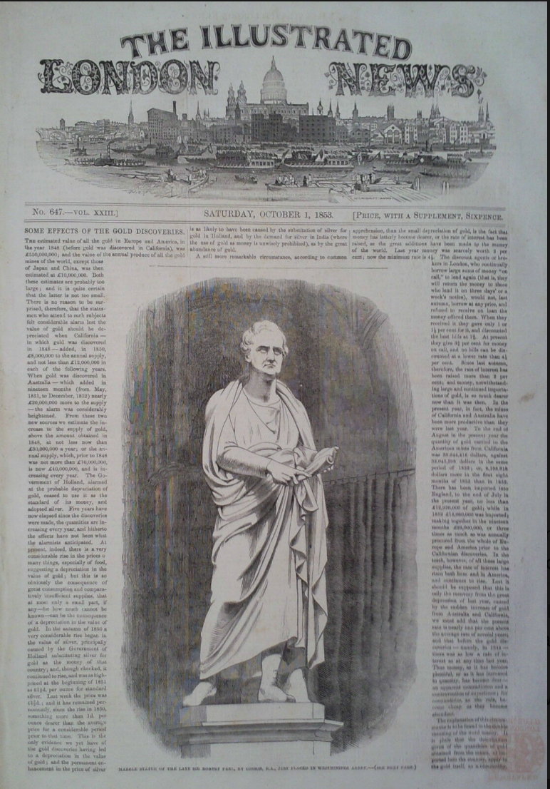 Peel Statue by John Gibson, The Illustrated London News. 1 October 1853